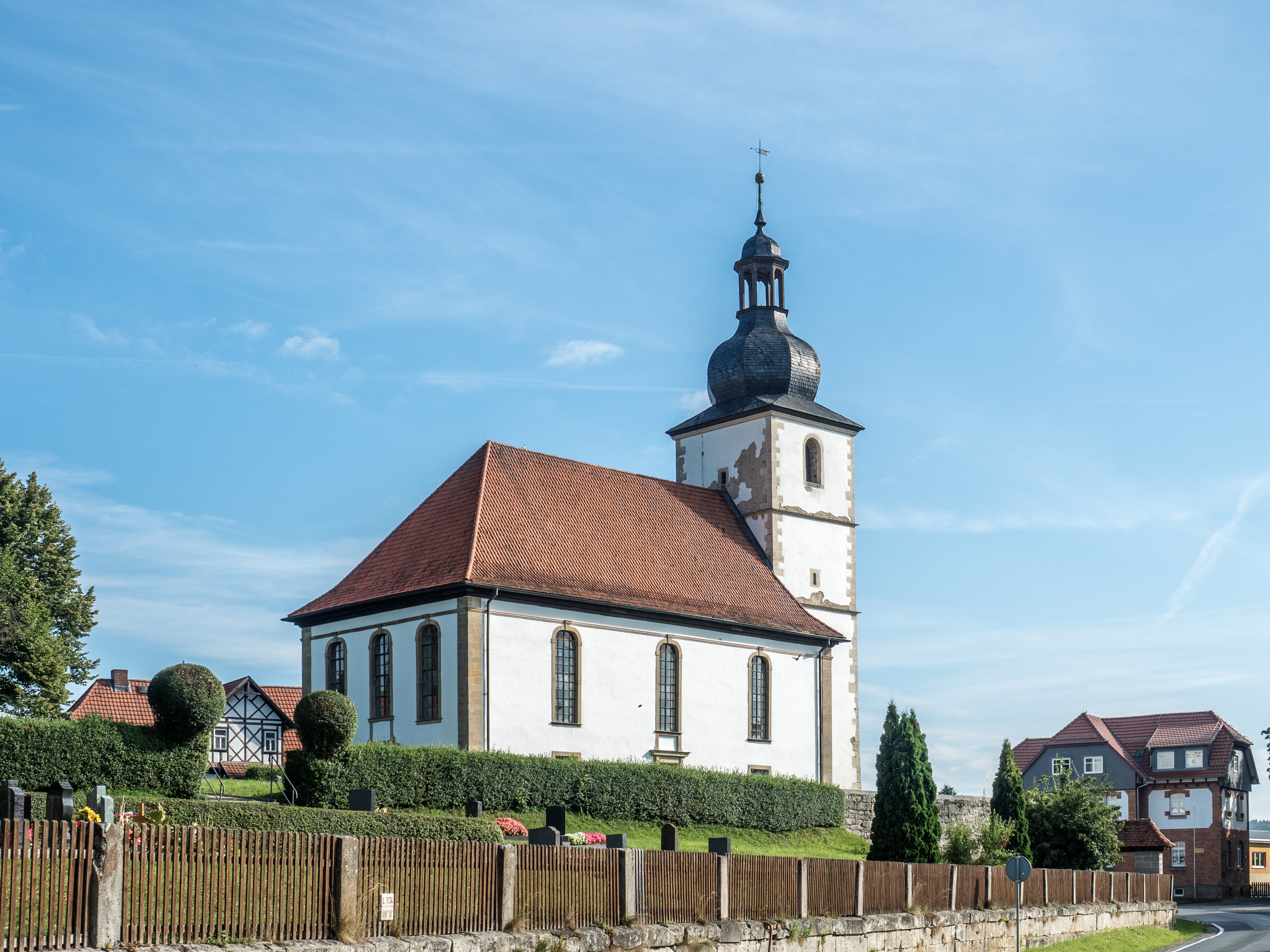 Evangelical Church in Hellingen